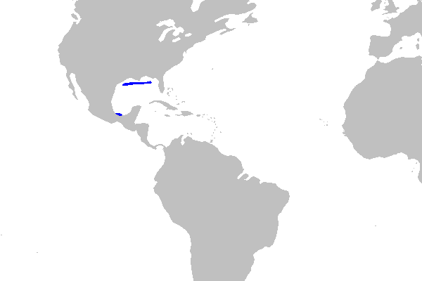 Distribution map for Mustelus sinusmexicanus